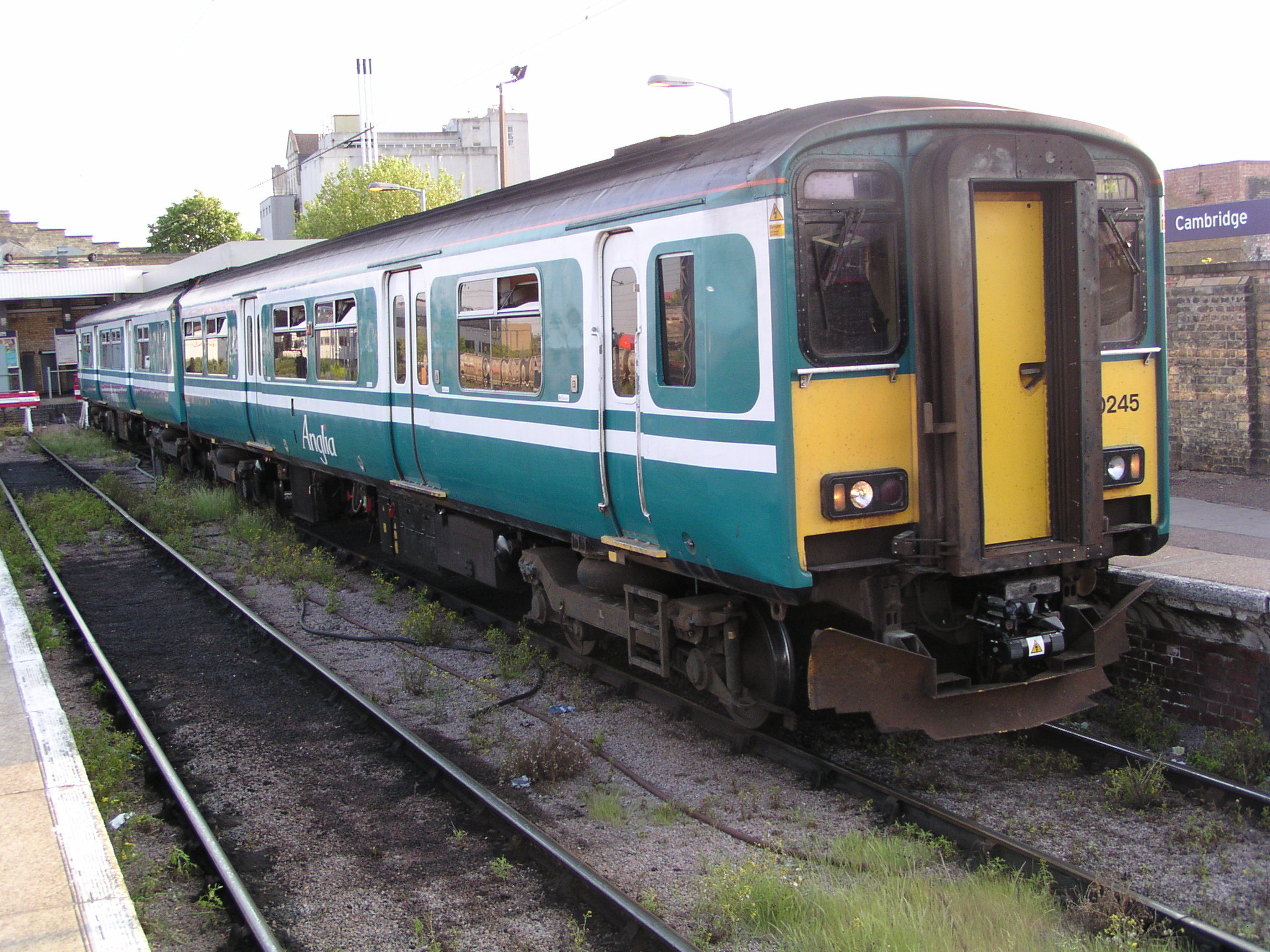 BR Class 150/2, no. 150245 at Cambridge on 2nd June 2004. This unit carries Anglia Railways turquoise livery, and was the only Anglia unit not to be named.